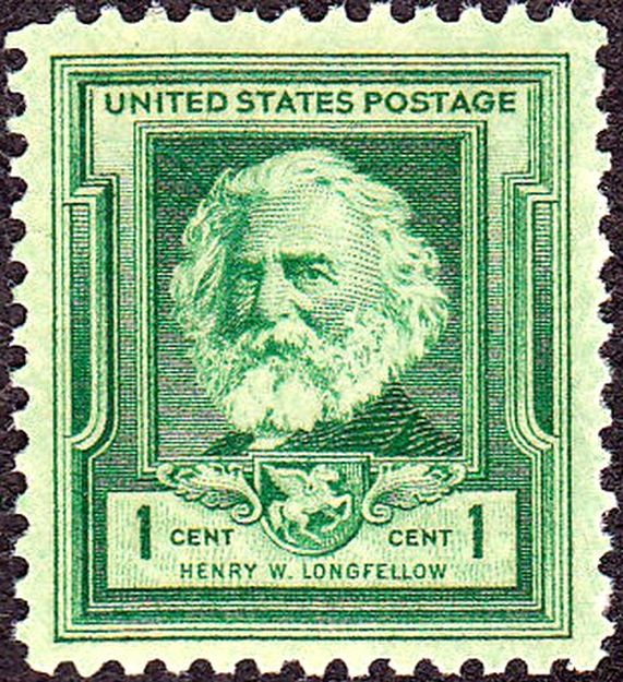 US commemorative postage stamp of Henry Wadsworth Longfellow, 1940 issue.